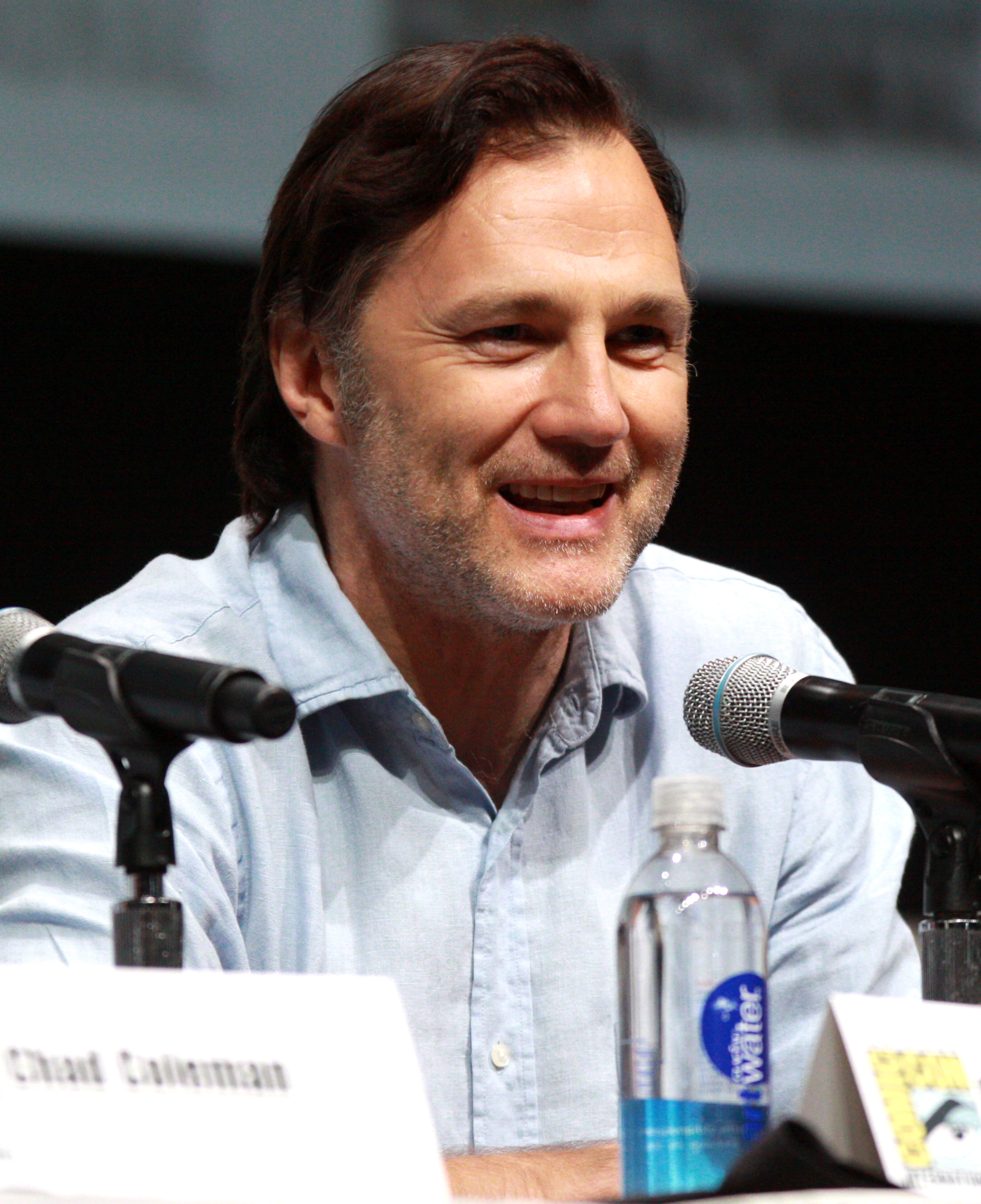 David Morrissey at the 2013 San Diego Comic Con International in San Diego, California.